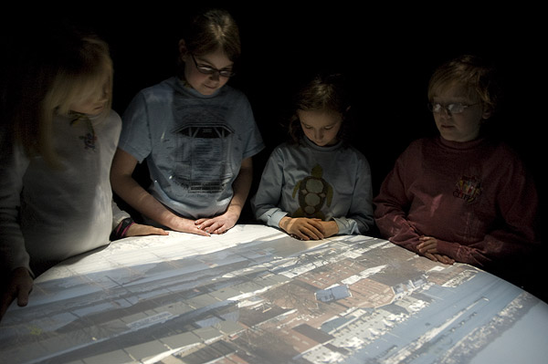 Children's Museum & Theatre of Maine Camera Obscura